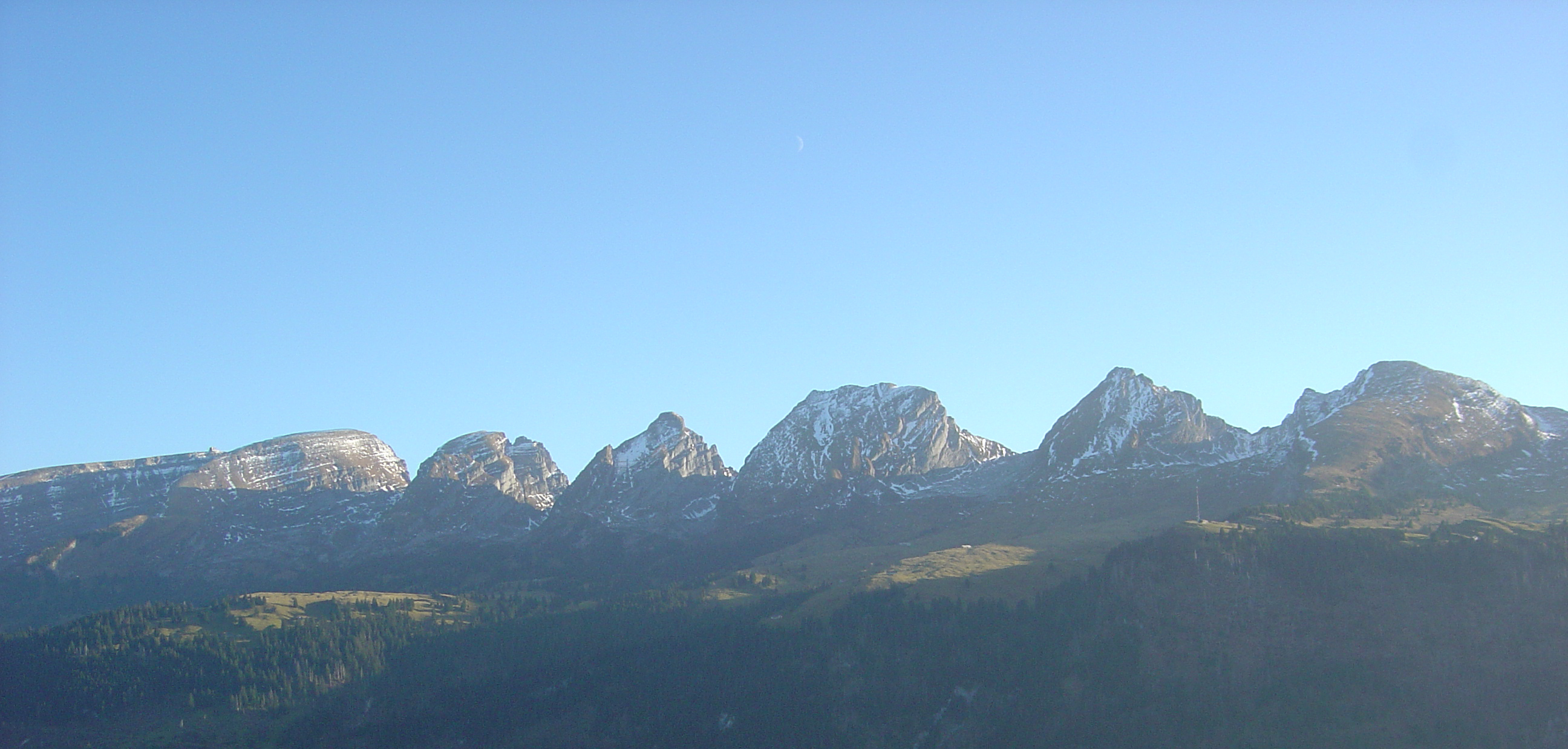 Description: Churfirsten (Canton of St. Gallen, Switzerland) Source: Photograph taken by Breeze (first upload in de.wikipedia) Photographer: Benutzer:Breeze